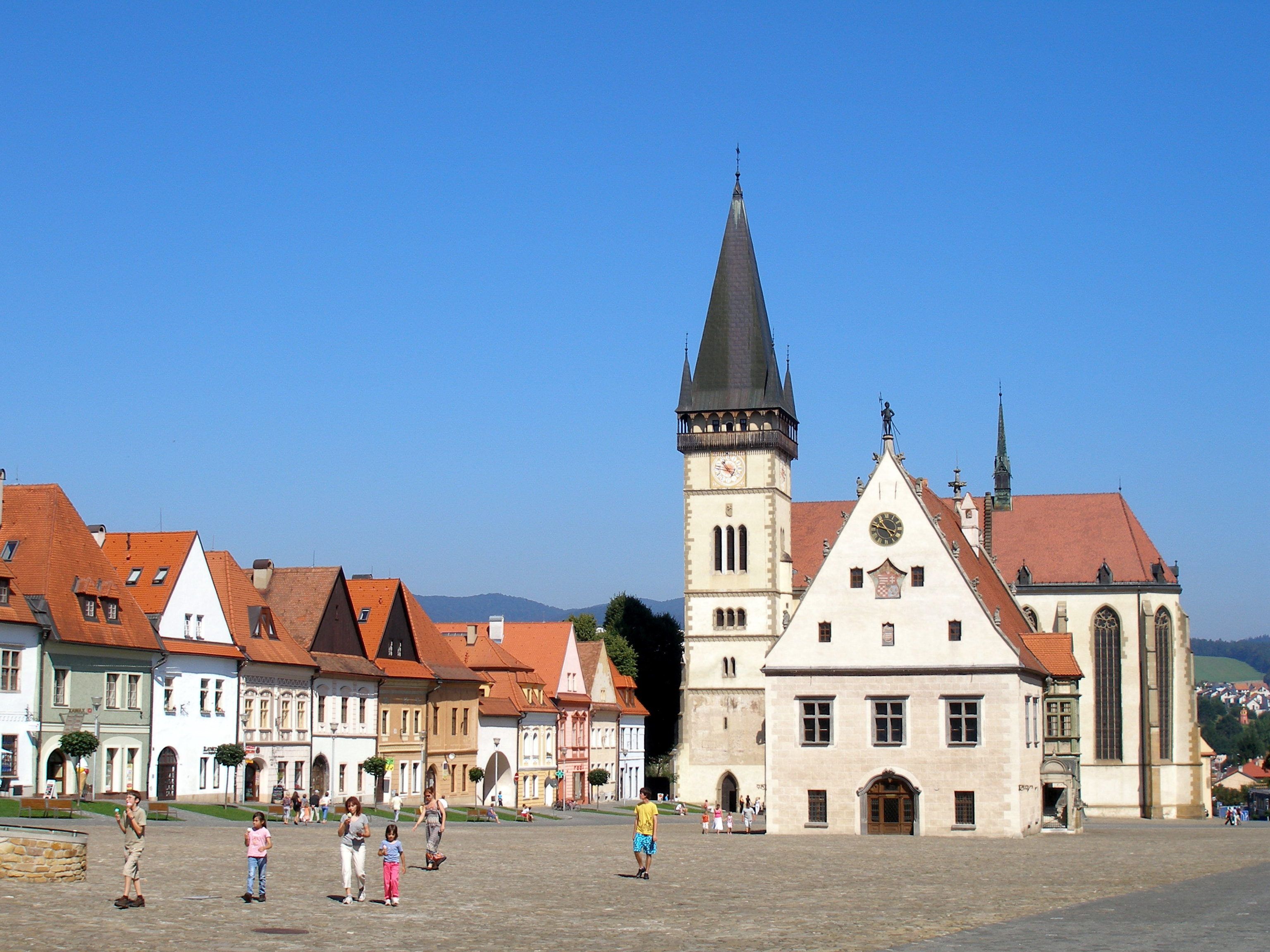 Central square of Bardejov in Eastern Slovakia. The city is a UNESCO Heritage site.